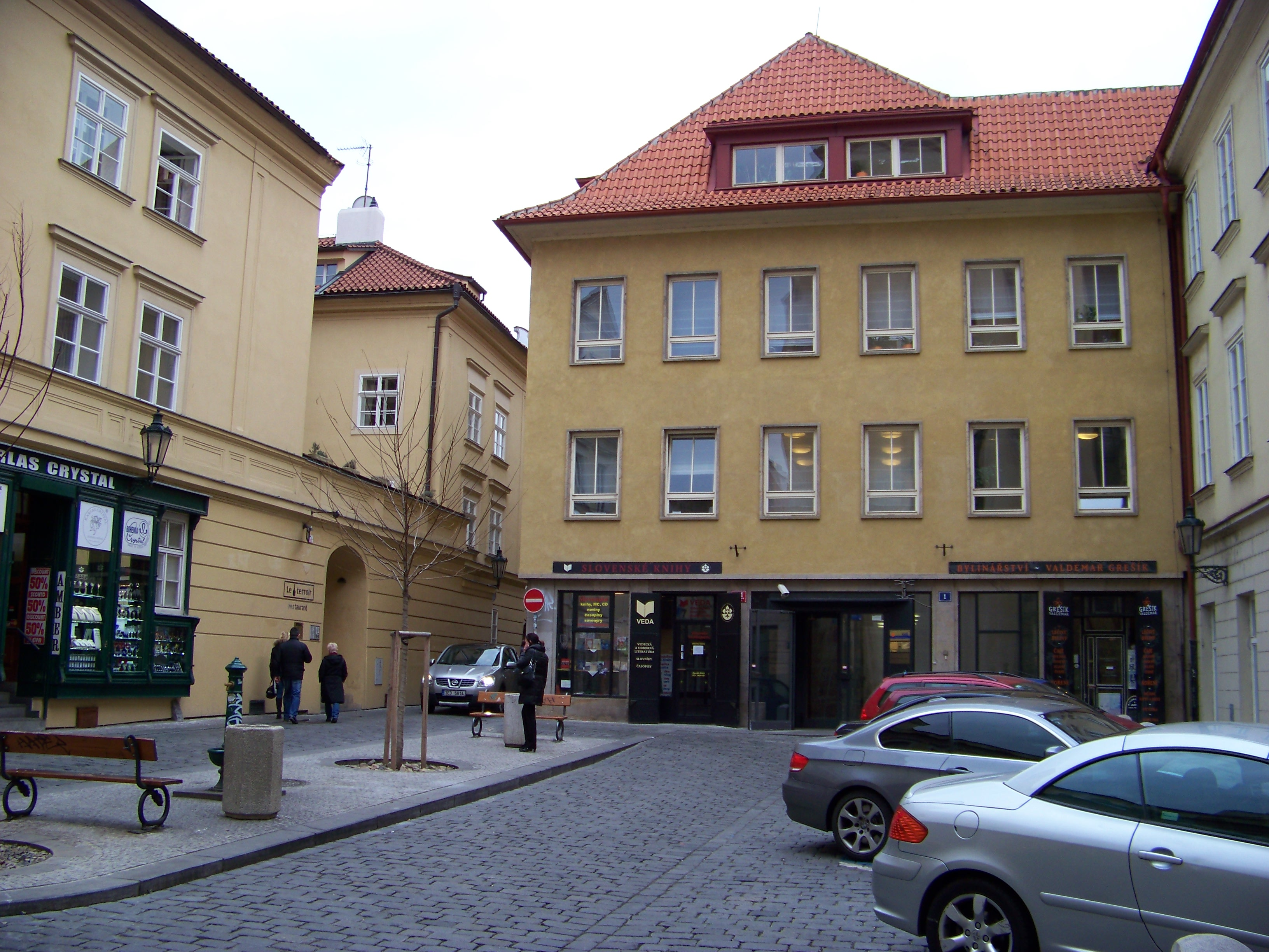 Prague-Old Town, Czech Republic. Jilská 445/6, 361/1.